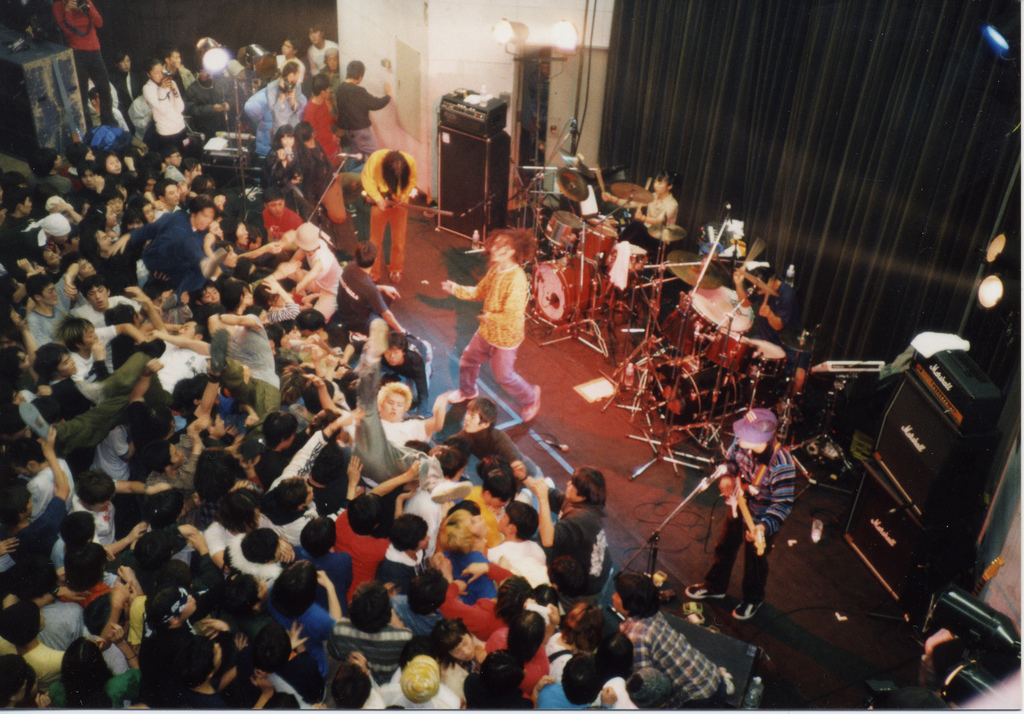 Boredoms, live at the Meiji University, Tokyo